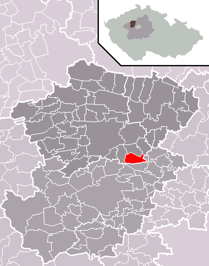 Location of Želenice municipality within Kladno District and administrative area of Slaný as a Municipality with Extended Competence.